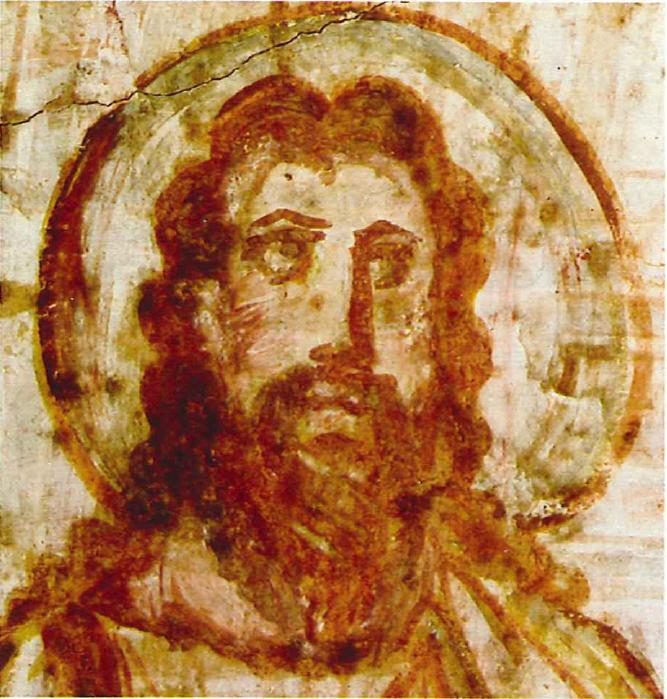 Mural painting from the catacomb of Commodilla. Bust of Christ. This is one of first bearded images of Christ, during the 4th century Jesus was beginning to be depicted as older and bearded, in contrast to earlier Christian art, which usually showed a young and clean-shaven Jesus.